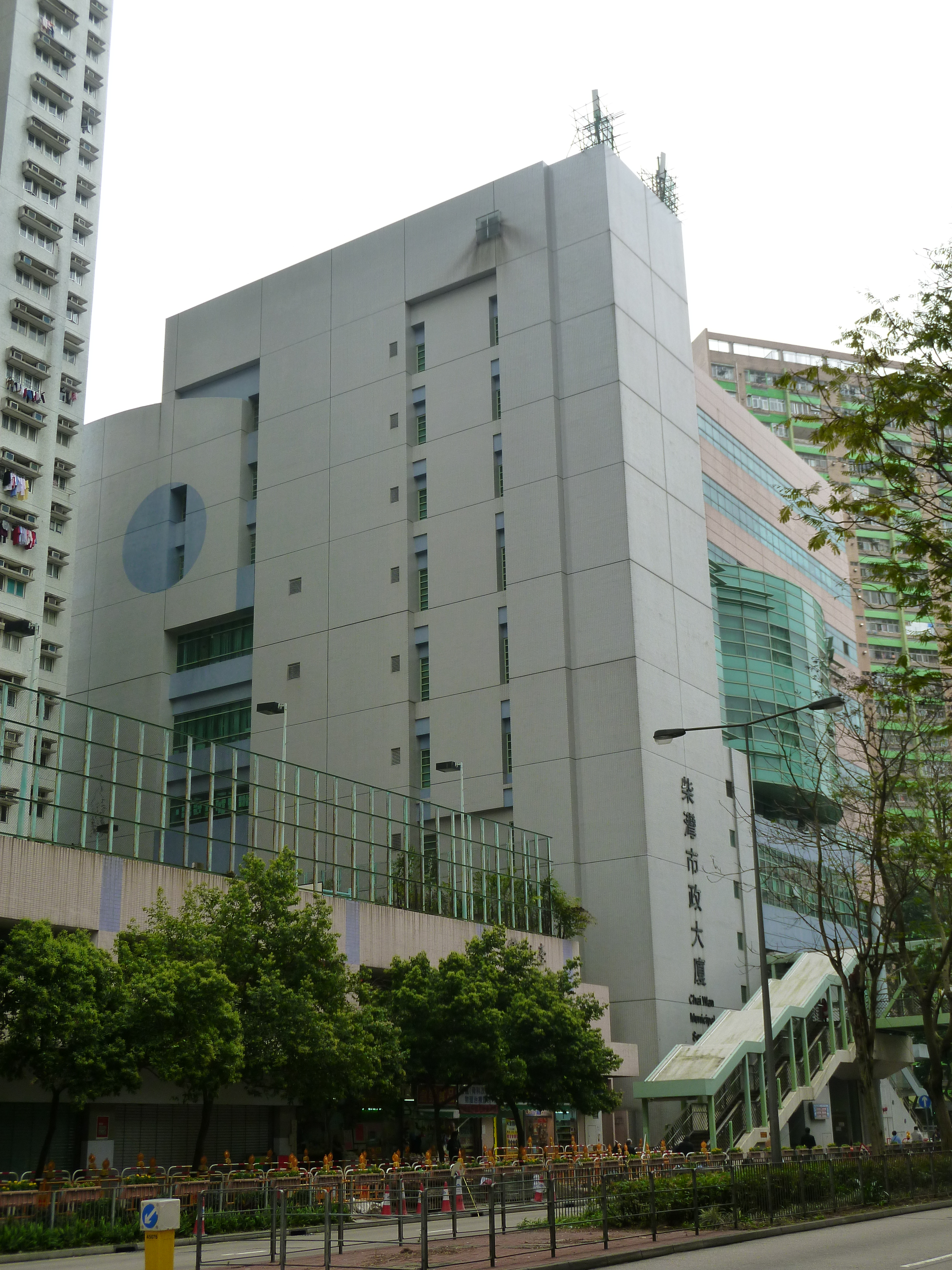 Chai Wan Municipal Services Building (338 Chai Wan Road, Chai Wan, Hong Kong)